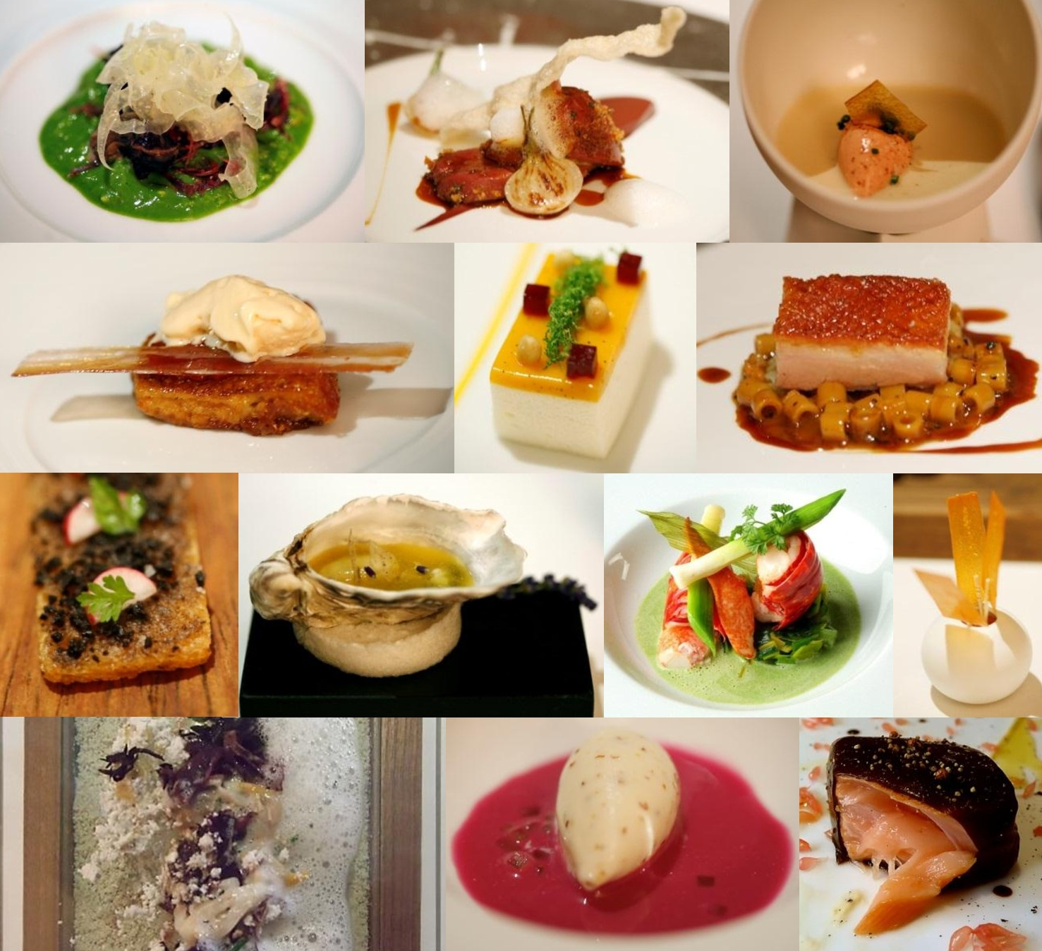 Pictures of dishes made by Michelin star restaurants.